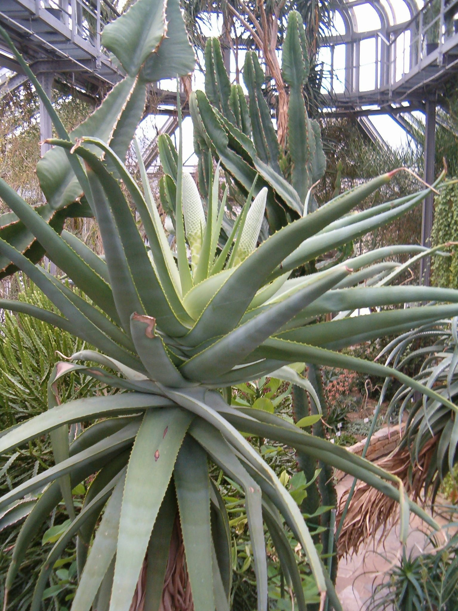 Location: Botanical Gardens Berlin Dahlem Xerophyt